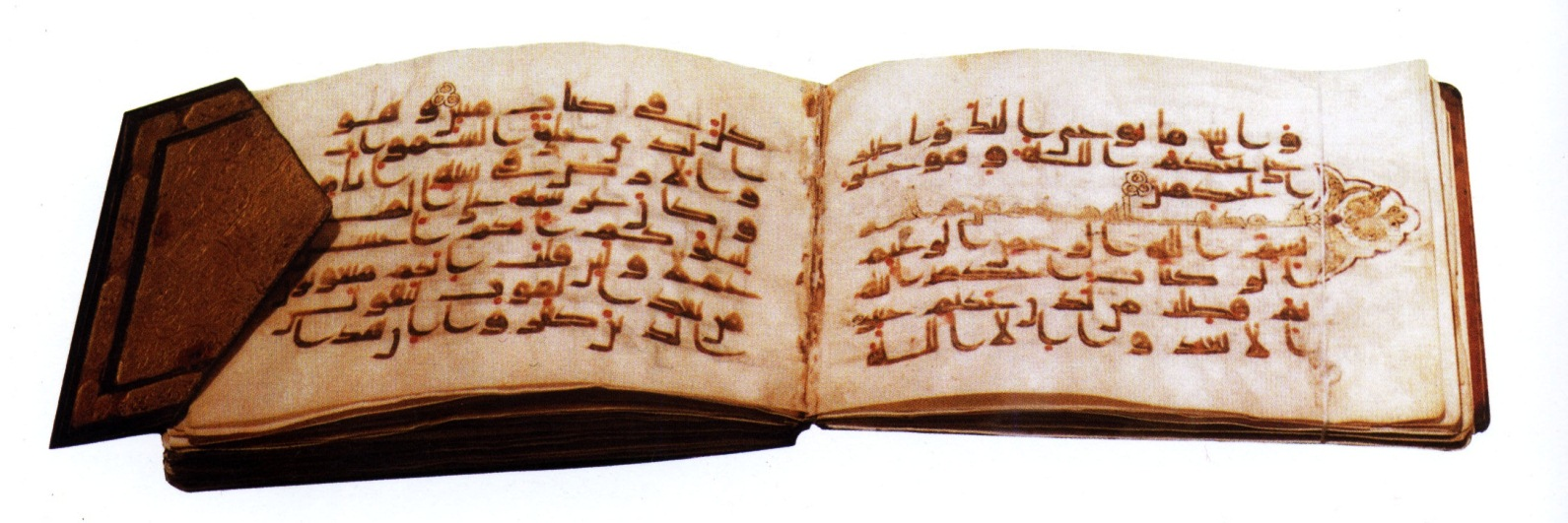 قرآن موجود در موزه آستانه مقدسه، منسوب به علی بن موسی